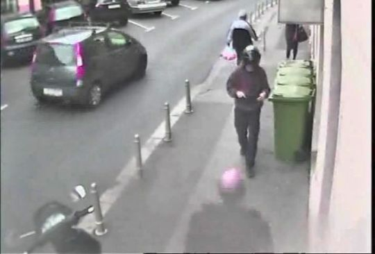 Still from a surveillance camera video showing the suspect in the 2008 Zagreb bombing.